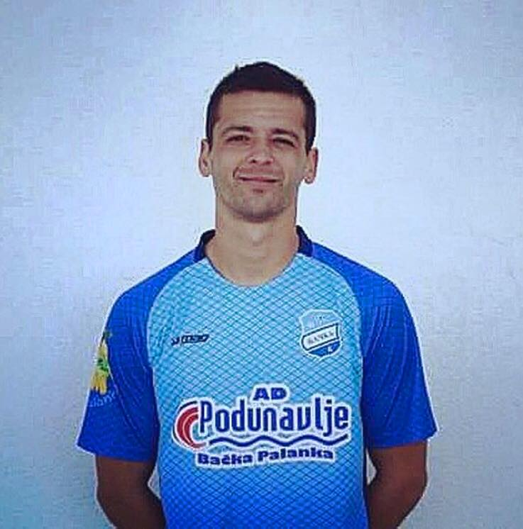 Simon Mrsic with Serbian Superliga side FK Backa Palanka